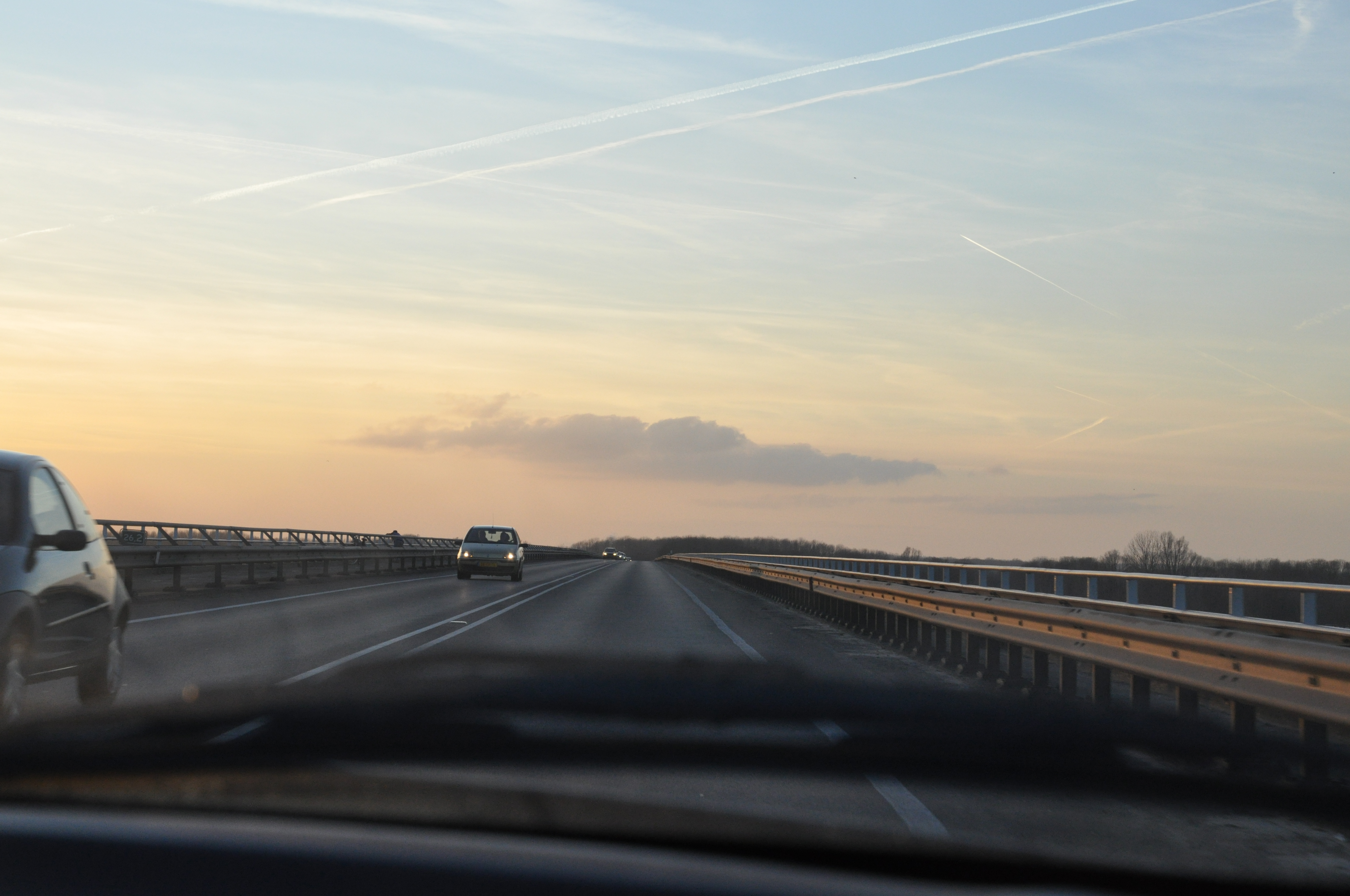 Bridge over the IJssel river at Zutphen